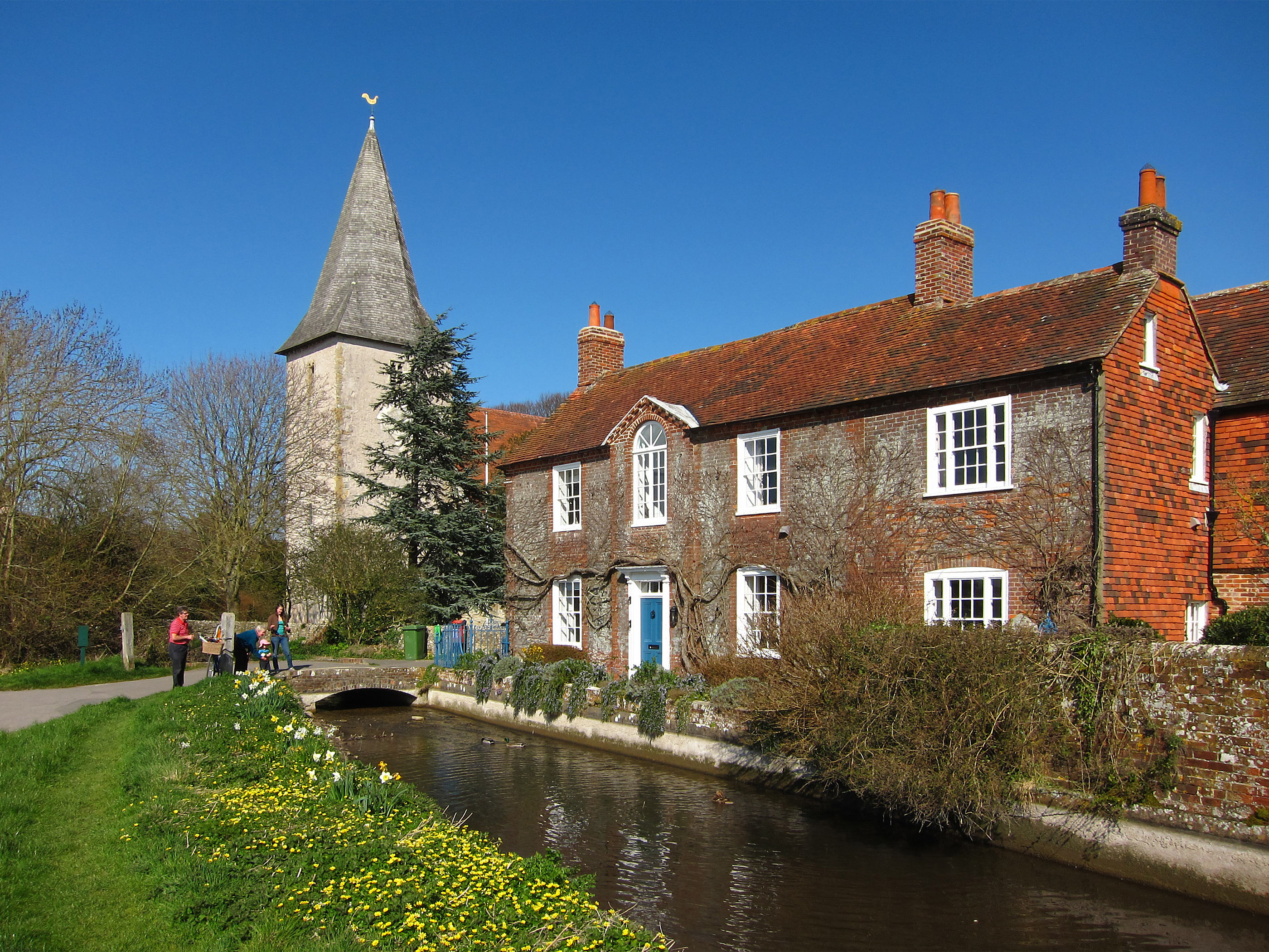 Bosham, West Sussex, England. Church and Brook House. Wikidata has entry Q26277360 with data related to this item.